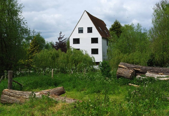 Mill from the Meadow. Croxton’s Mill is now occupied by the offices of Andrew Martin Associates who are Chartered Town Planners, surveyors etc.